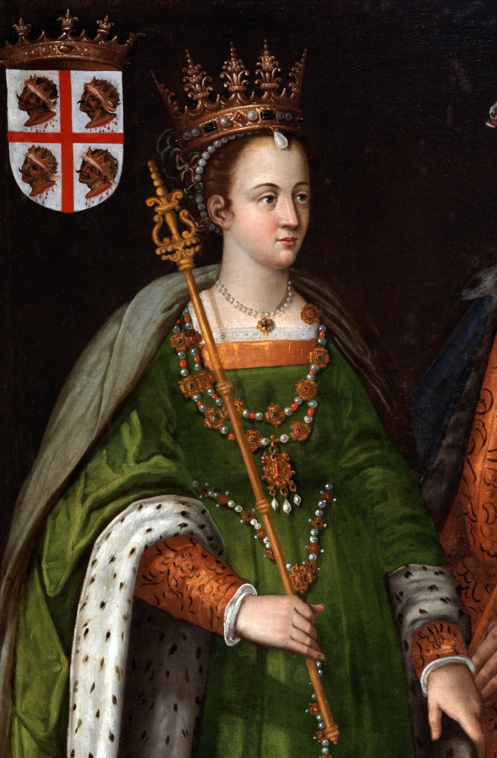 Petronila of Aragon